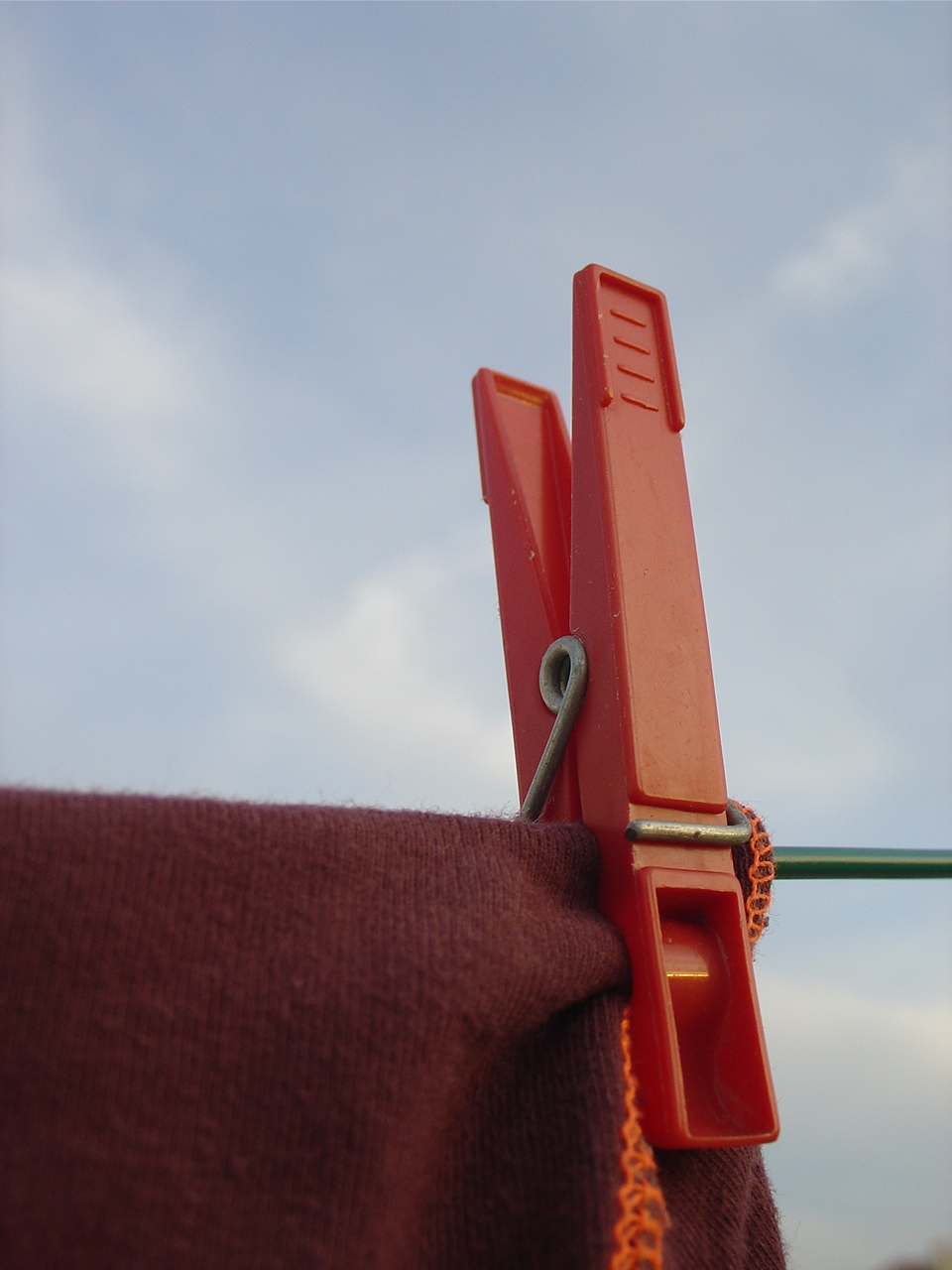 Plastic clothes pin.Drying Up